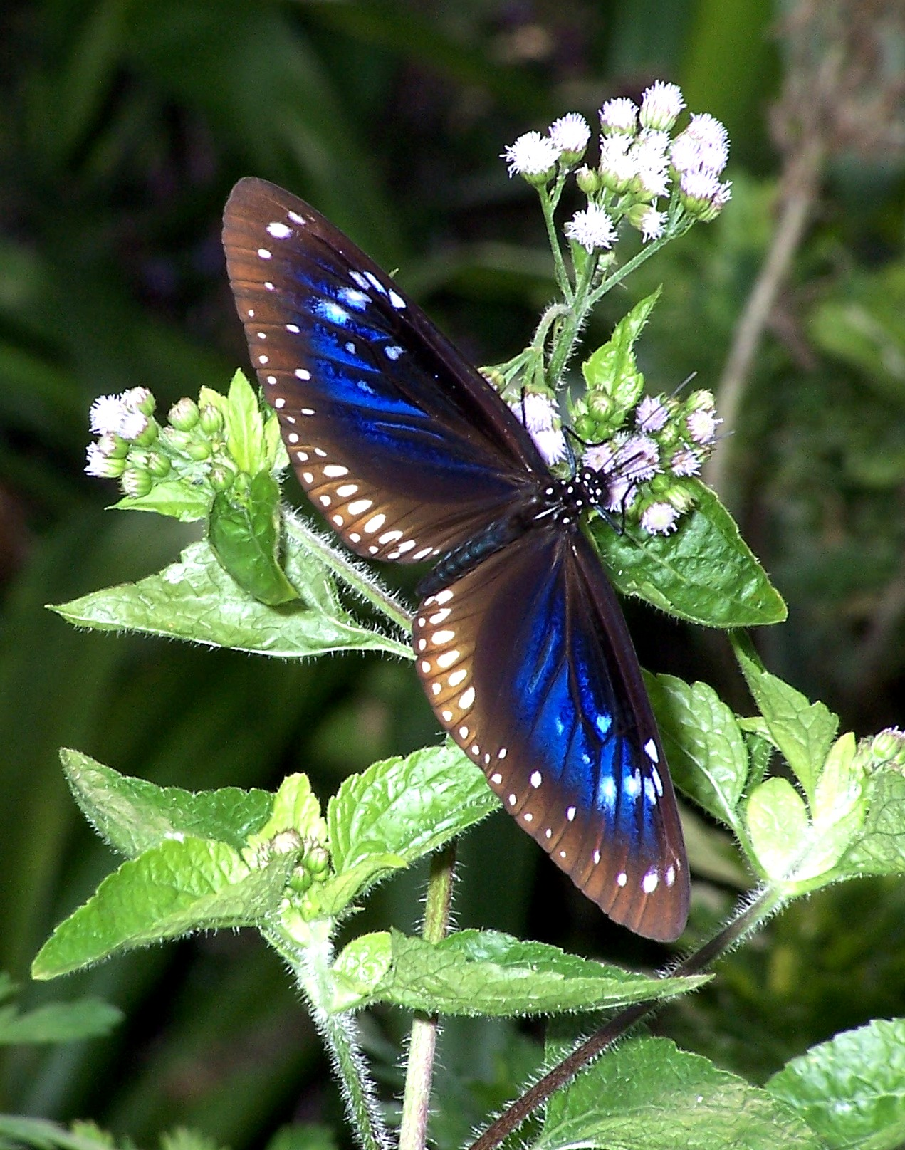 Euploea midamus - Blue Spotted Crow. Hong KongBeautiful Flower Open